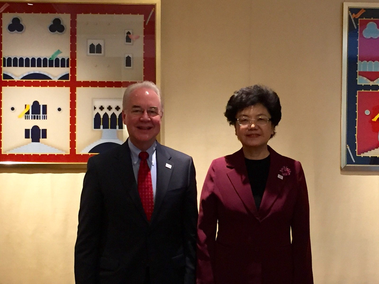 Very productive #globalhealth discussions @ #G20Health Meeting. Had bilateral meetings w/ Indonesia, China, Saudi Arabia, & United Kingdom.